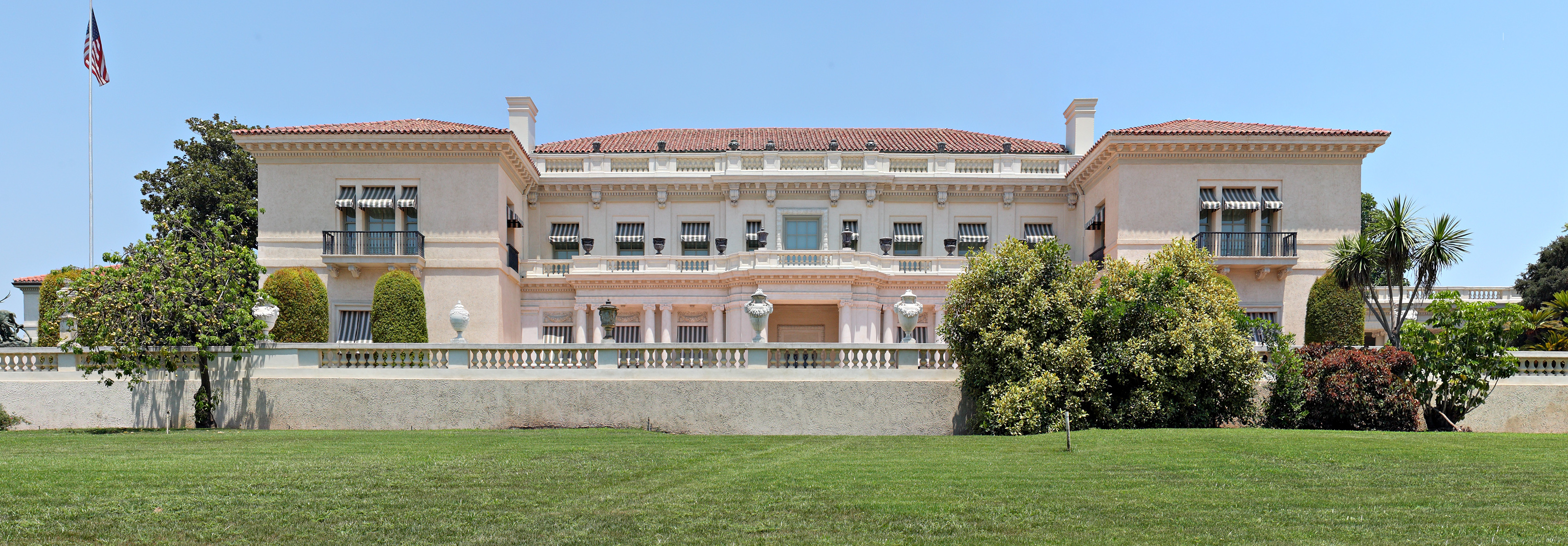 The former Huntington Mansion designed by Myron Hunt, and present day Art Gallery building — at the Huntington Library, in San Marino, California. Once the home of Henry E. Huntington (1850–1927) and his wife, Arabella (1850–1924), the Huntington Art Gallery opened in 1928 as the first public art gallery in Southern California. A 3 image stitch (original, non CC, at 14000 wide)